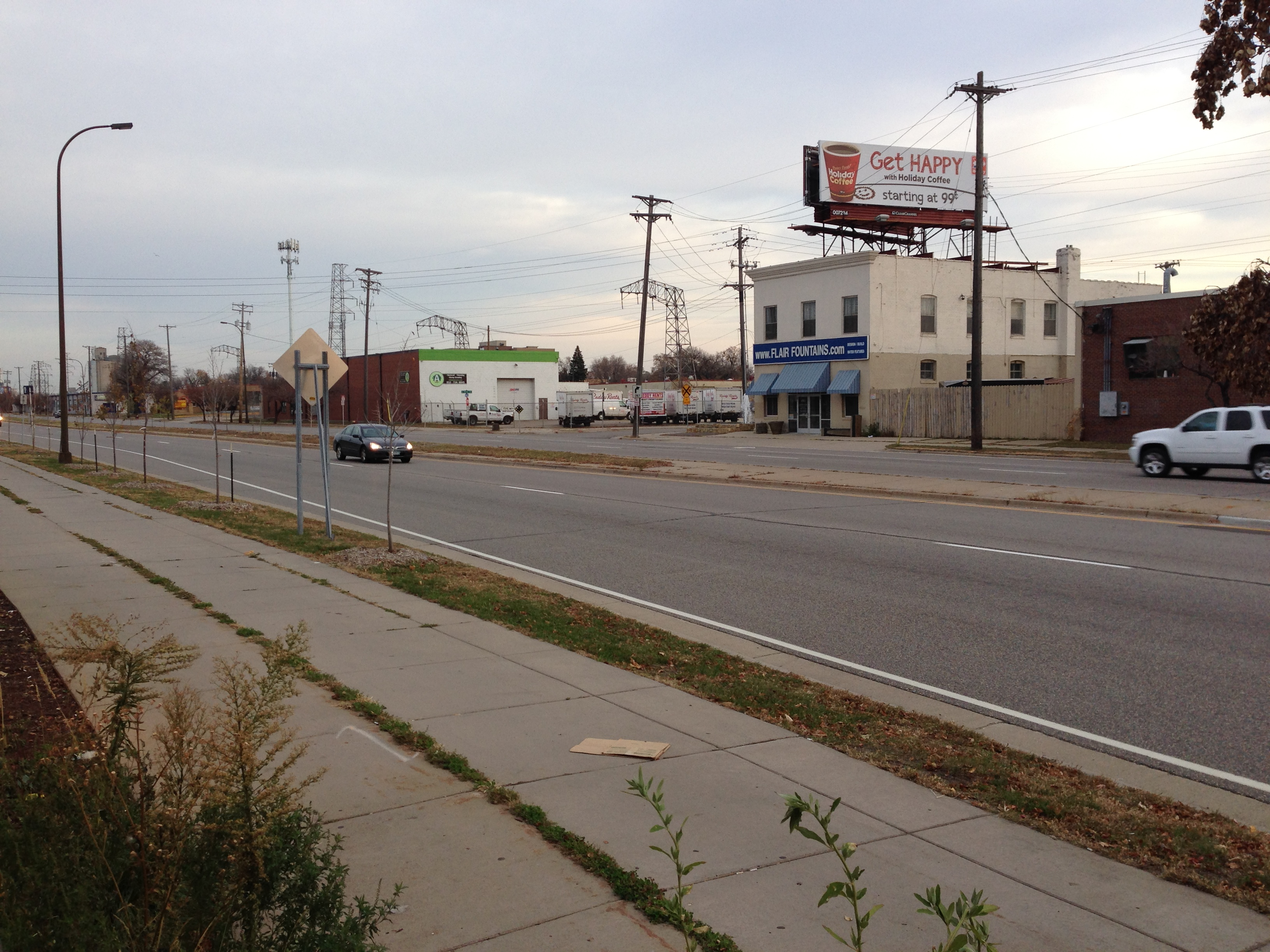 From 46th Street light rail station